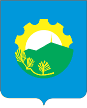 Arseniev (Primorsky kray), coat of arms